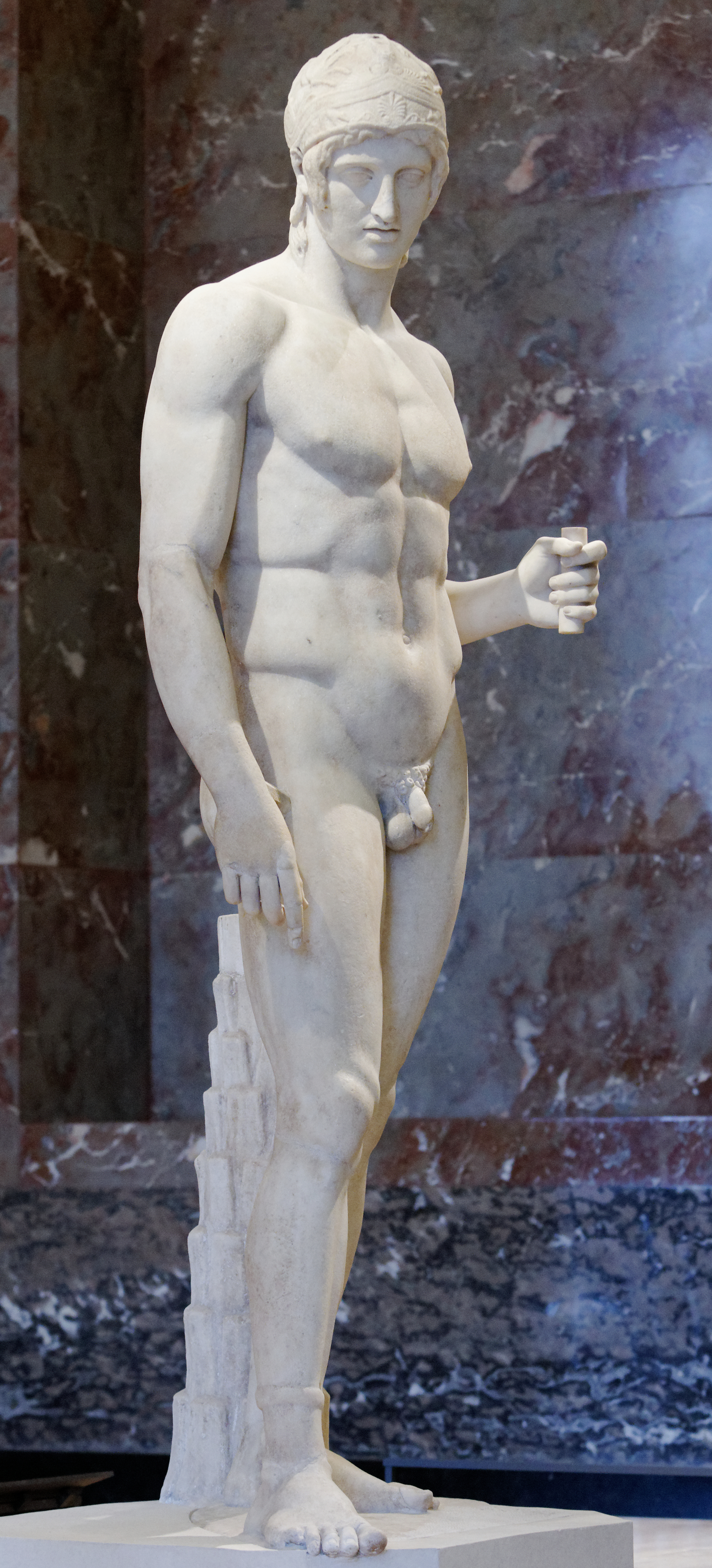 Naked, helmeted warrior holding a spear and wearing a bracelet at the right ankle, probably a representation of Ares. Free-standing statue, Roman Imperial period. From the agora in Athens.